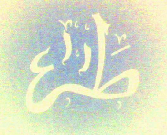 Created by wikipedia user Iamnotgeorge